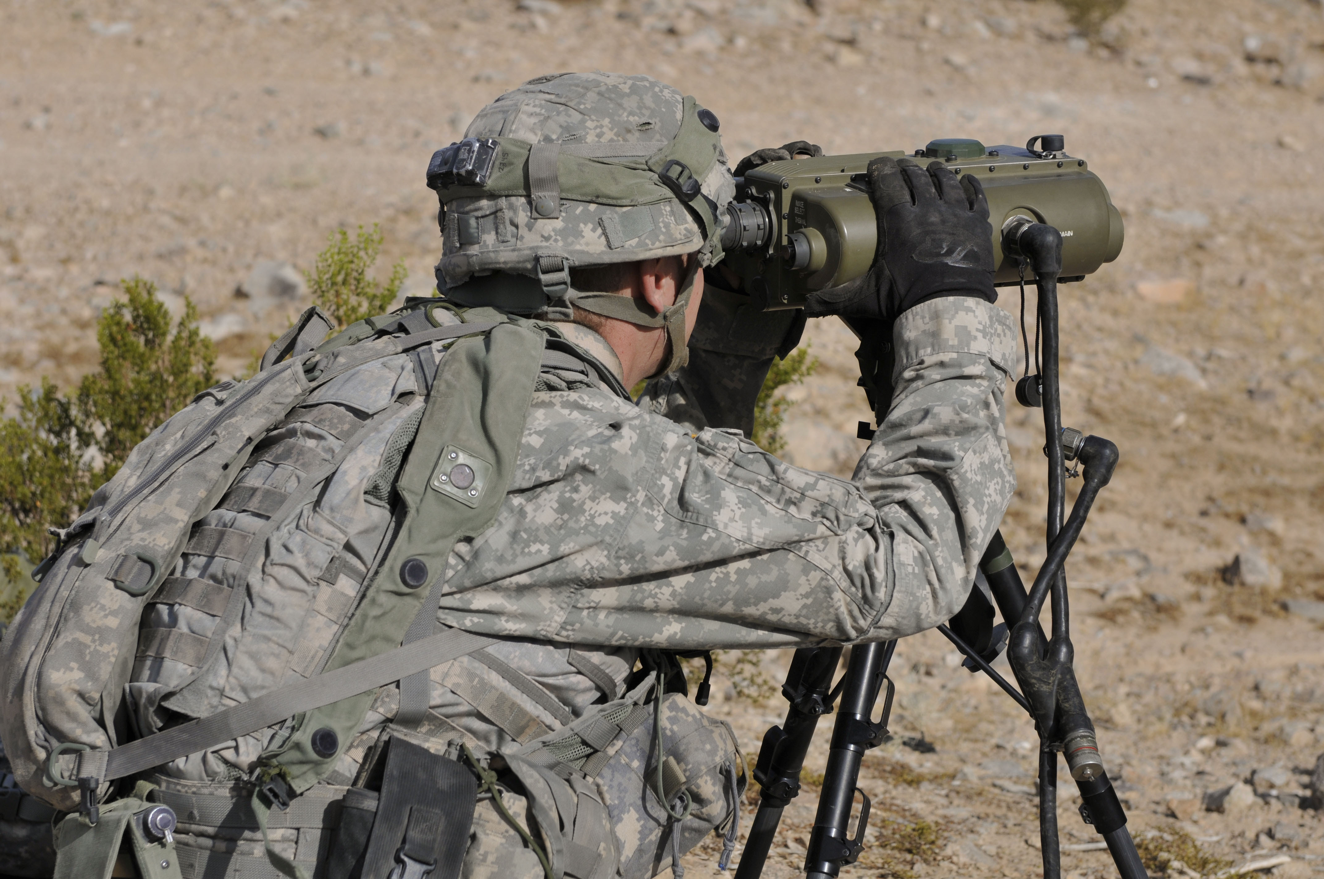 Sgt. Matthew J. Niemann, a forward observer from Charlie Company, 2nd Battalion, 3rd Infantry Regiment, 3rd Stryker Brigade Combat Team, 2nd Infantry Division, scans the desert for potential threats at the National Training Center Aug. 12. Upon acquiring accurate target position, forward observers call for artillery and mortar fire to neutralize the threat. Unit: 28th Public Affairs Detachment